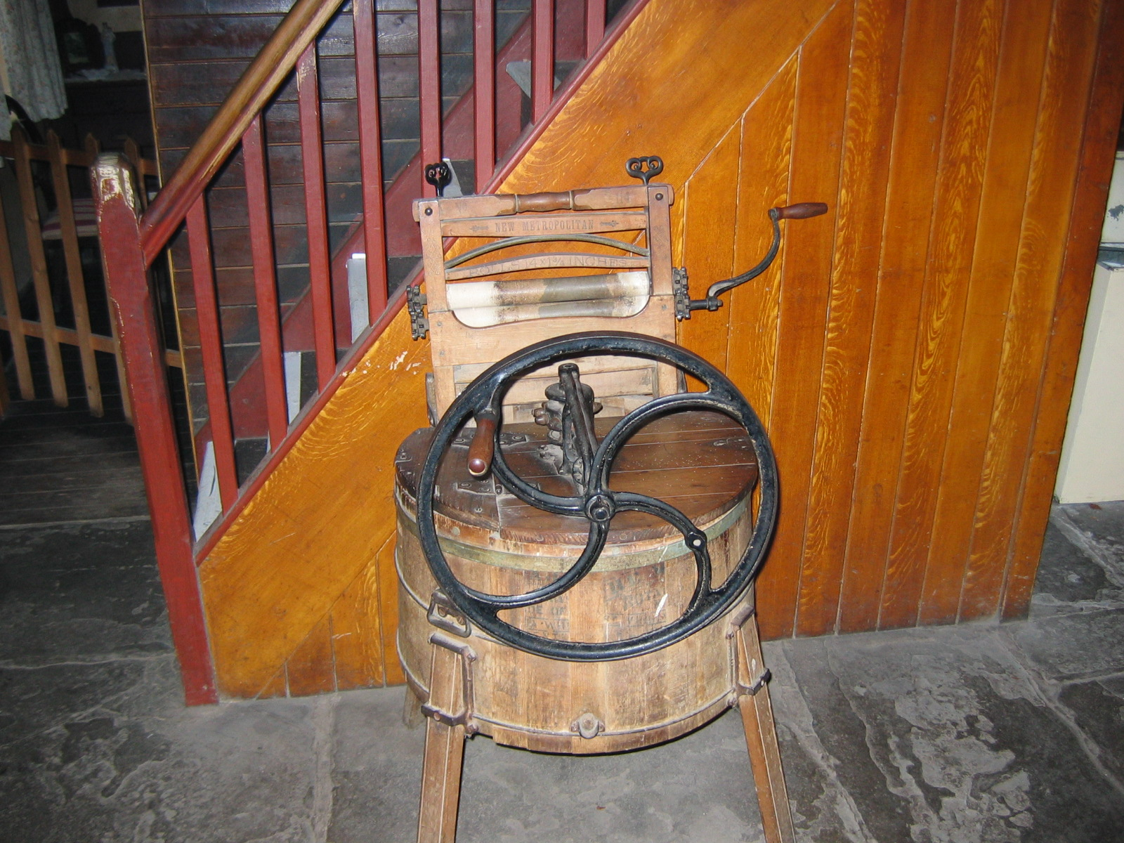 Old washing machine in Bunratty, Ireland